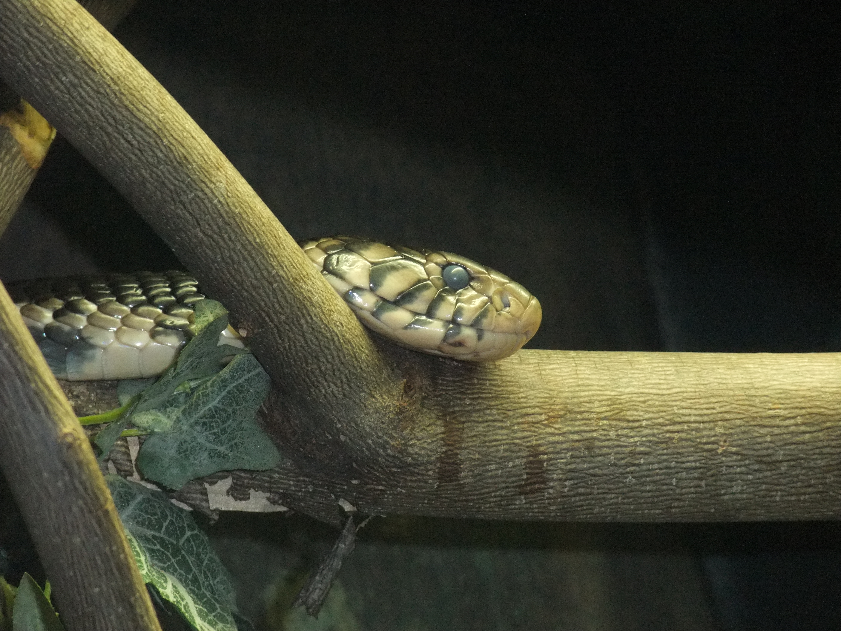 A photograph of Naja melanoleuca